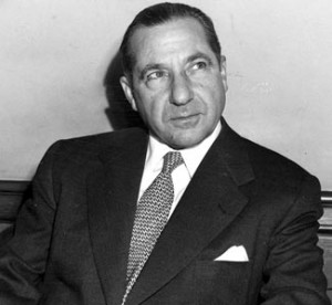 Frank "The Prime Minister" Costello. Capo di Tutti Capi.